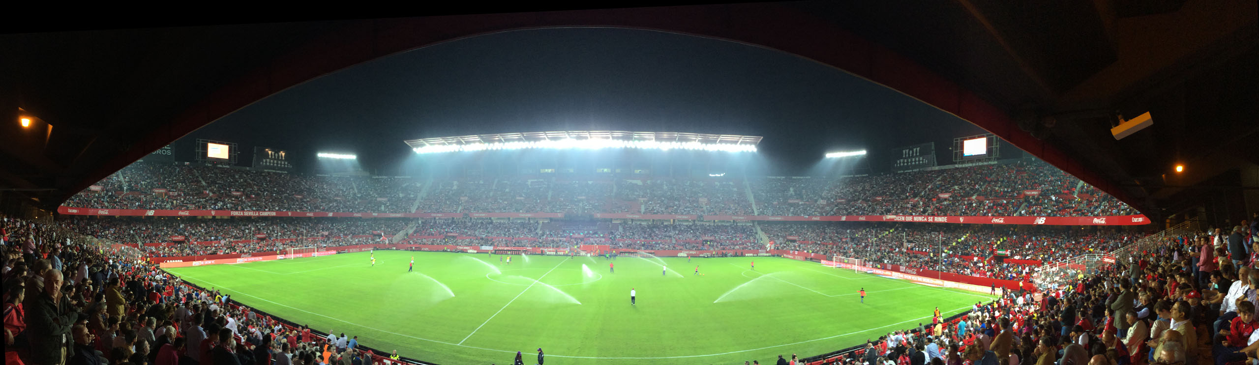 Estadio Ramon Sanchez Pizjuan, October 2015